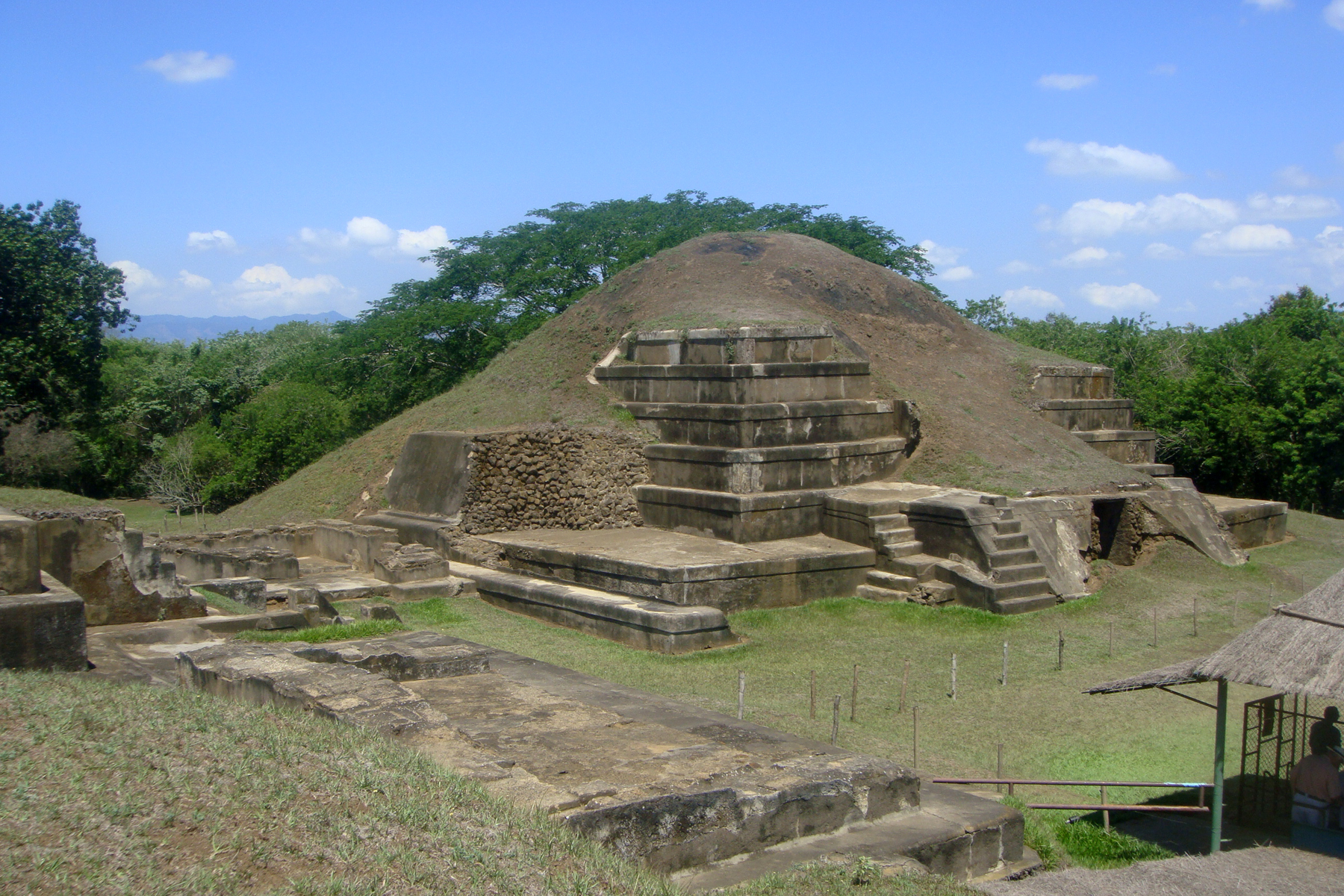 Mayan pyramid (structure 1) at La Acropolis, San Andres, El Salvador.